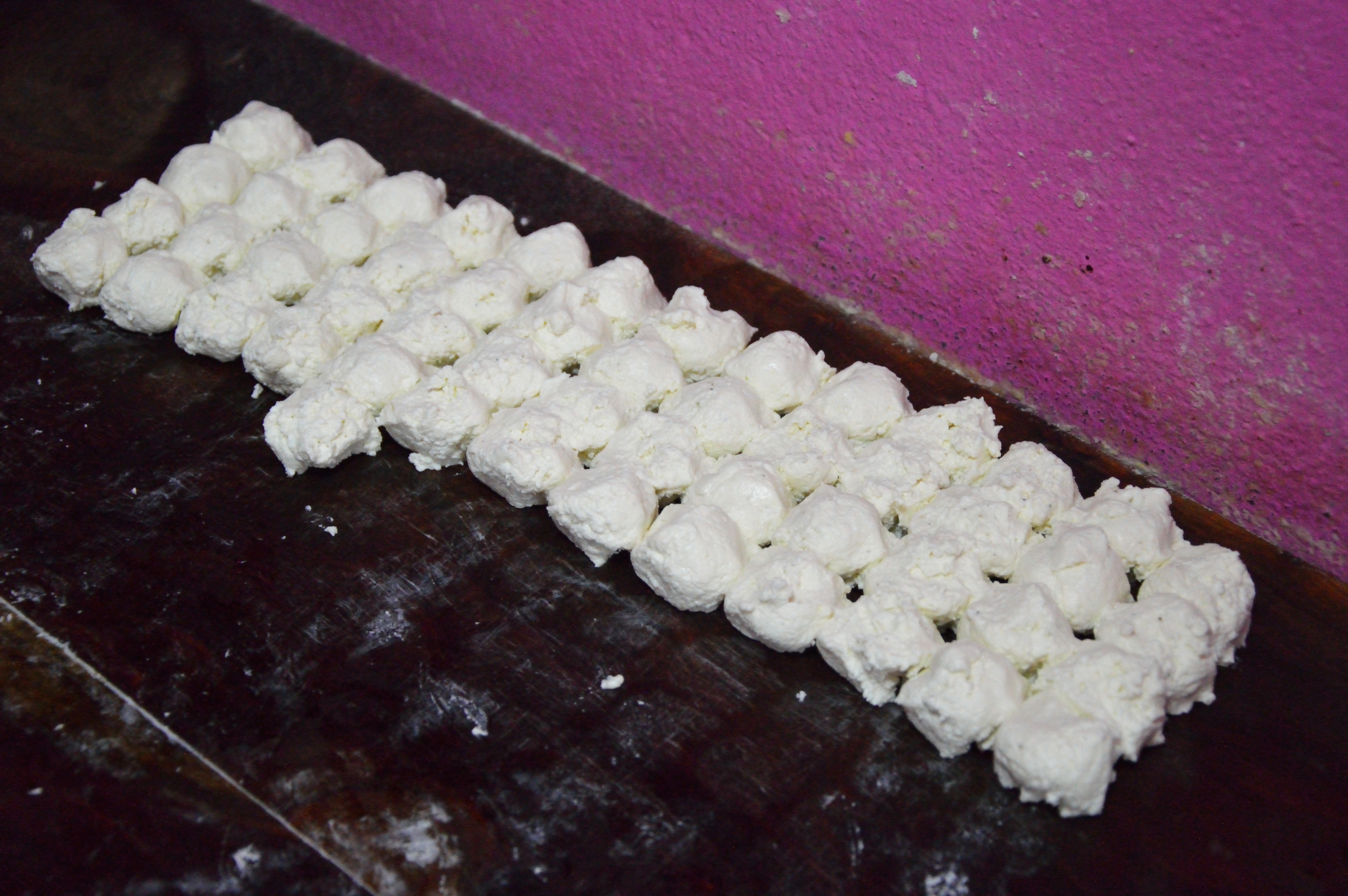 This photograph has been taken at the Ma Tilottama Sweets at the Holiday Home market, New Digha, East Midnapore.